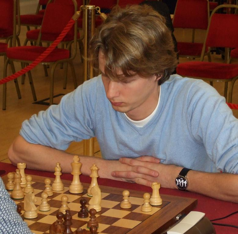 GM Jan Werle - Round 7 of 4th EU Individual Open Ch., Liverpool World Museum, William Brown Street